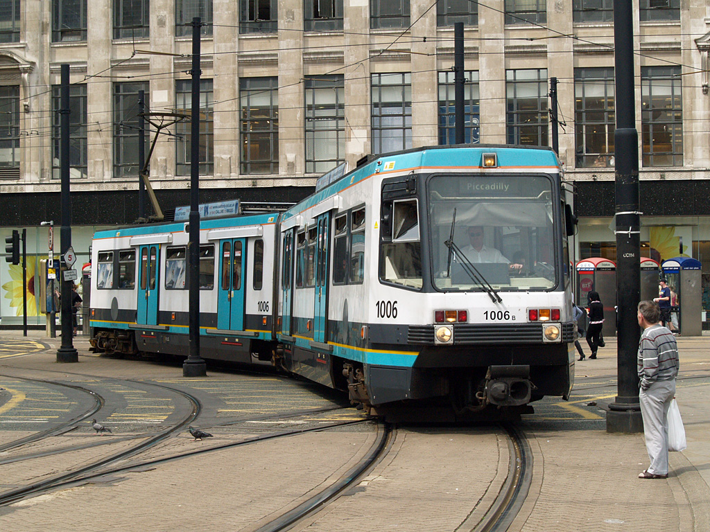 Greater Manchester Metrolink number 1006, an Ansaldo T68 (Phase 1) tram turns off Mosley Street, Manchester into Piccadilly Gardens with an inbound service for Manchester Piccadilly railway station service. Friday 25th July 2008